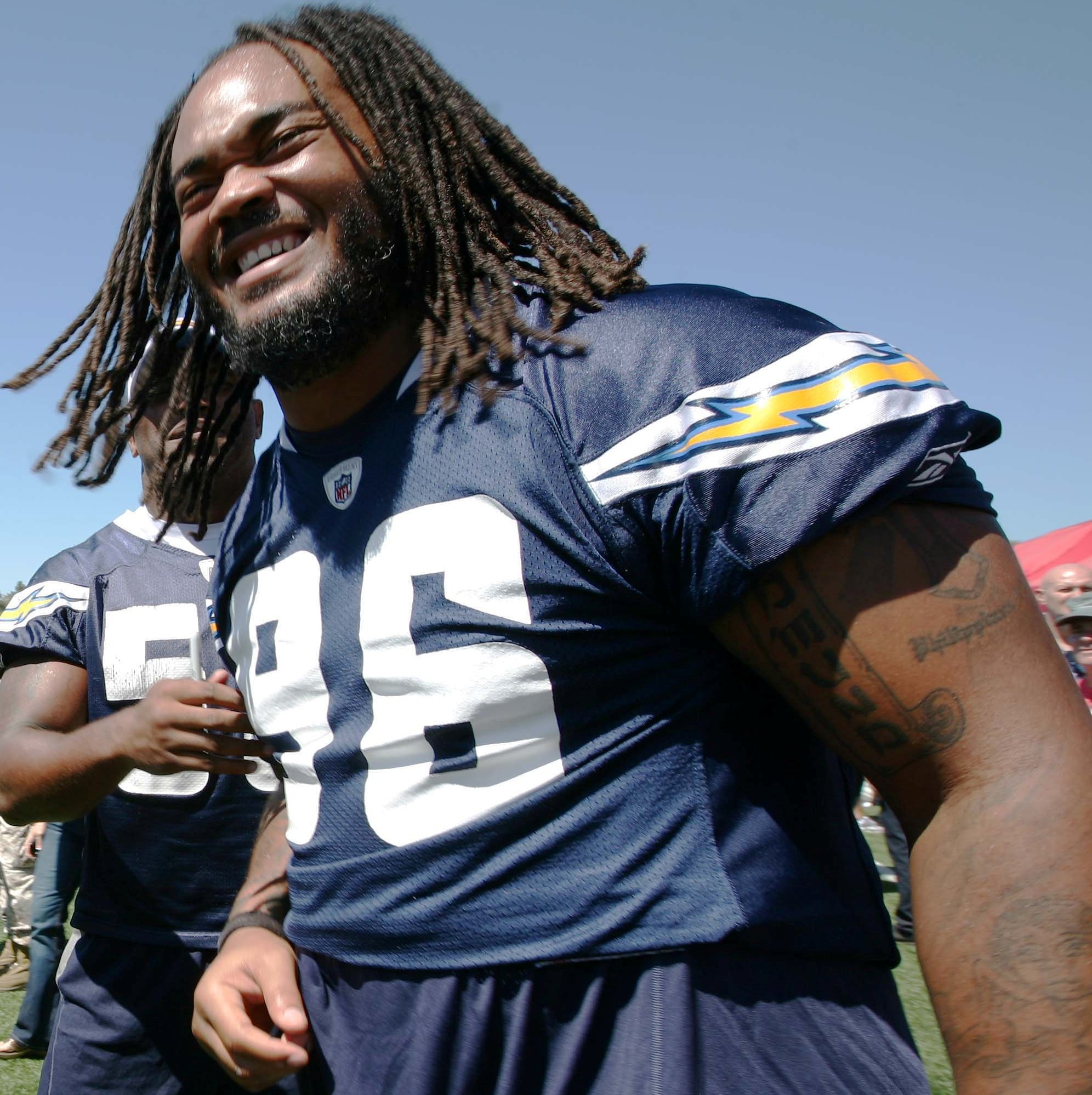 Travis Johnson, a defensive end with the San Diego Chargers, during the 4th Annual Military Appreciation Day at the Miramar Youth Sports Complex Aug. 20. During the event, the Chargers had a walk through practice for their preseason game against the Dallas Cowboys Aug. 21.